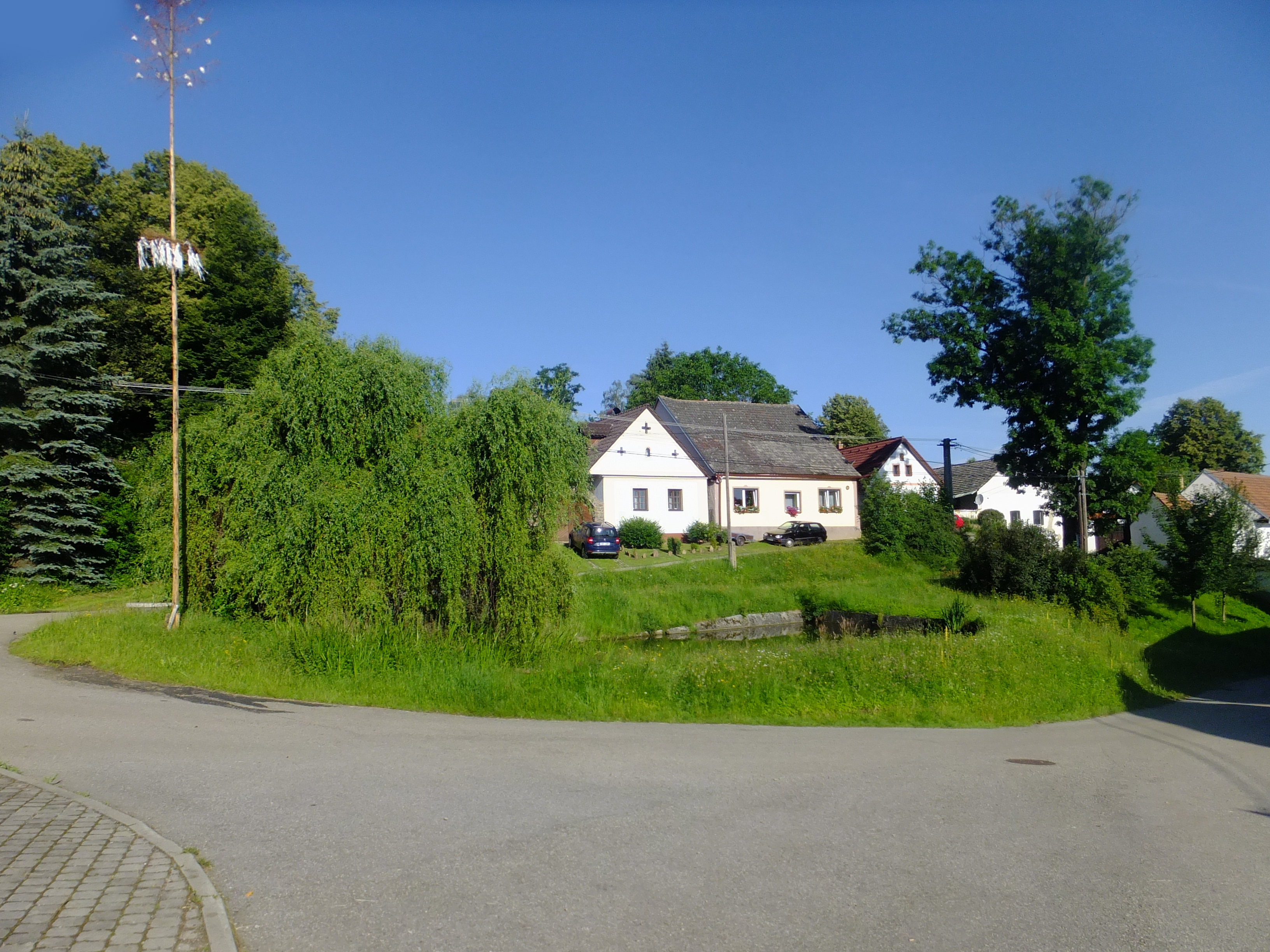 Western side of the square in Výrov